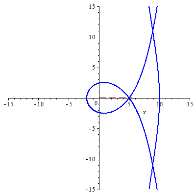 Example of generalized conic in the sense in which the term was used by Tom M. Apostol and Mamikon A. Mnatsakanian in their study of curves drawn on the surfaces of right circular cones. Parameter values: r_0=5, lambda=1.5, k=0.5